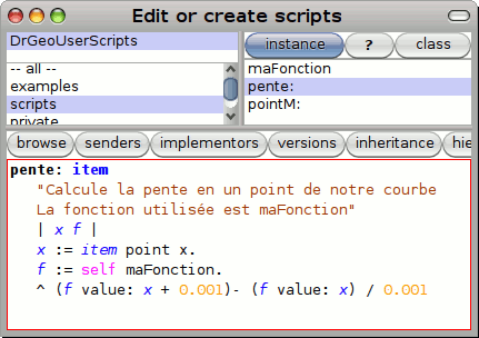 A Smalltalk script computing the rate of a function under DrGeoII